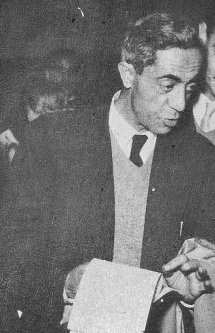 Adham Wanly Close-up